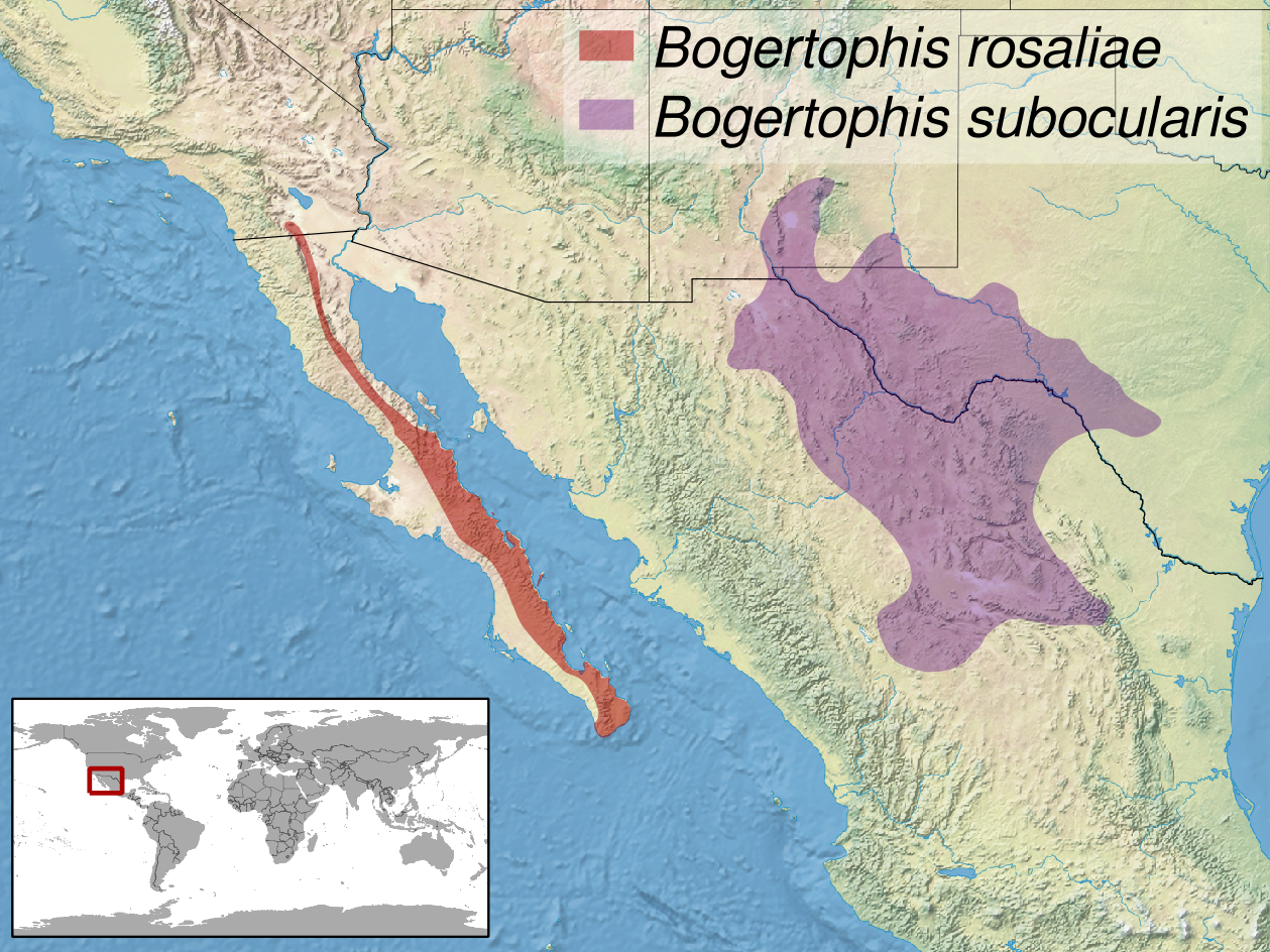 geographic distribution of the genus Bogertophis (Native: Mexico; United States) included species for RDB: B. rosaliae and B. subocularis